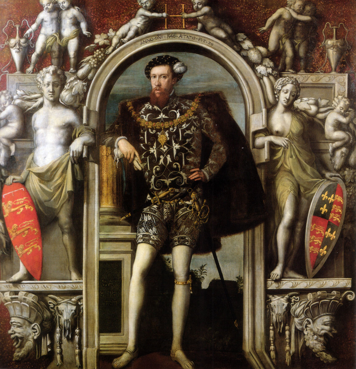 Henry Howard Earl of Surrey at age 29, 1546